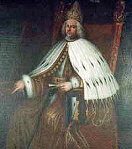 Francesco Morosini (1619-1694)